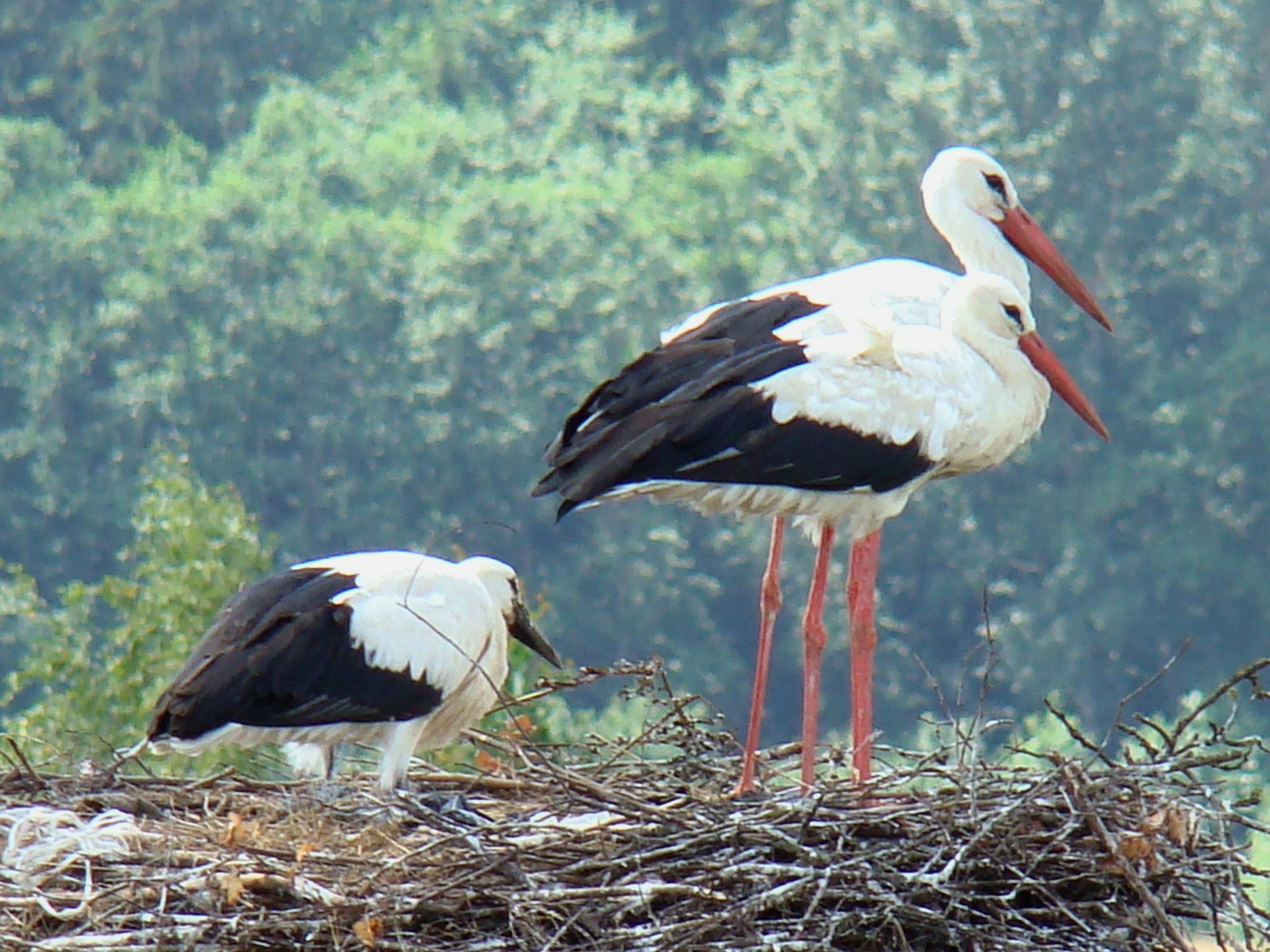 Photo of the White Stork's family (Ciconia ciconia) in Kuziai, Siauliai, Lithuania.